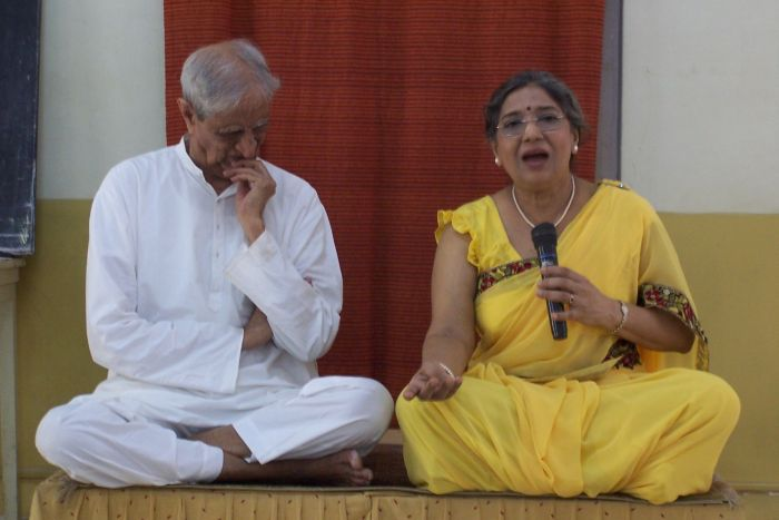 Dr. Jayadev and Hansaji giving a talk at the Yoga Institute